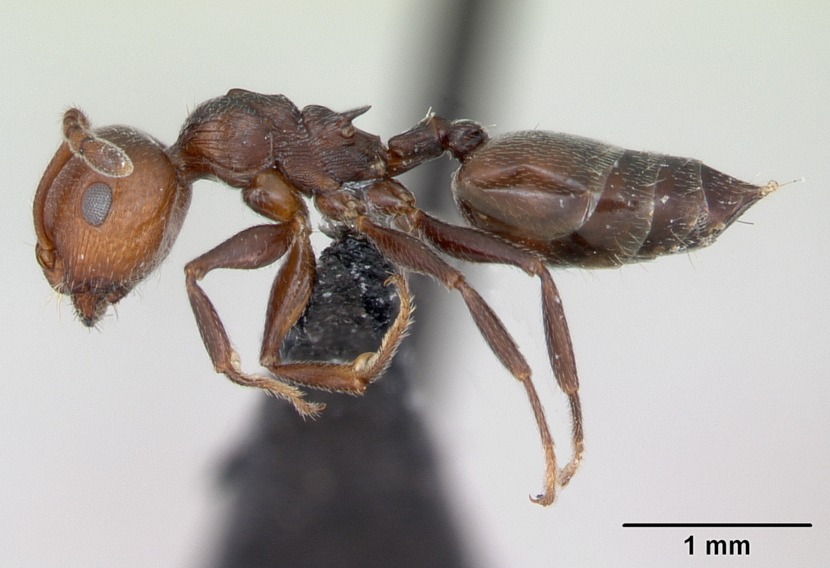 Profile view of ant Crematogaster scutellaris specimen casent0173180.